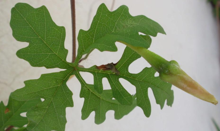 Ipomoea dissecta at Cairo-Egypt